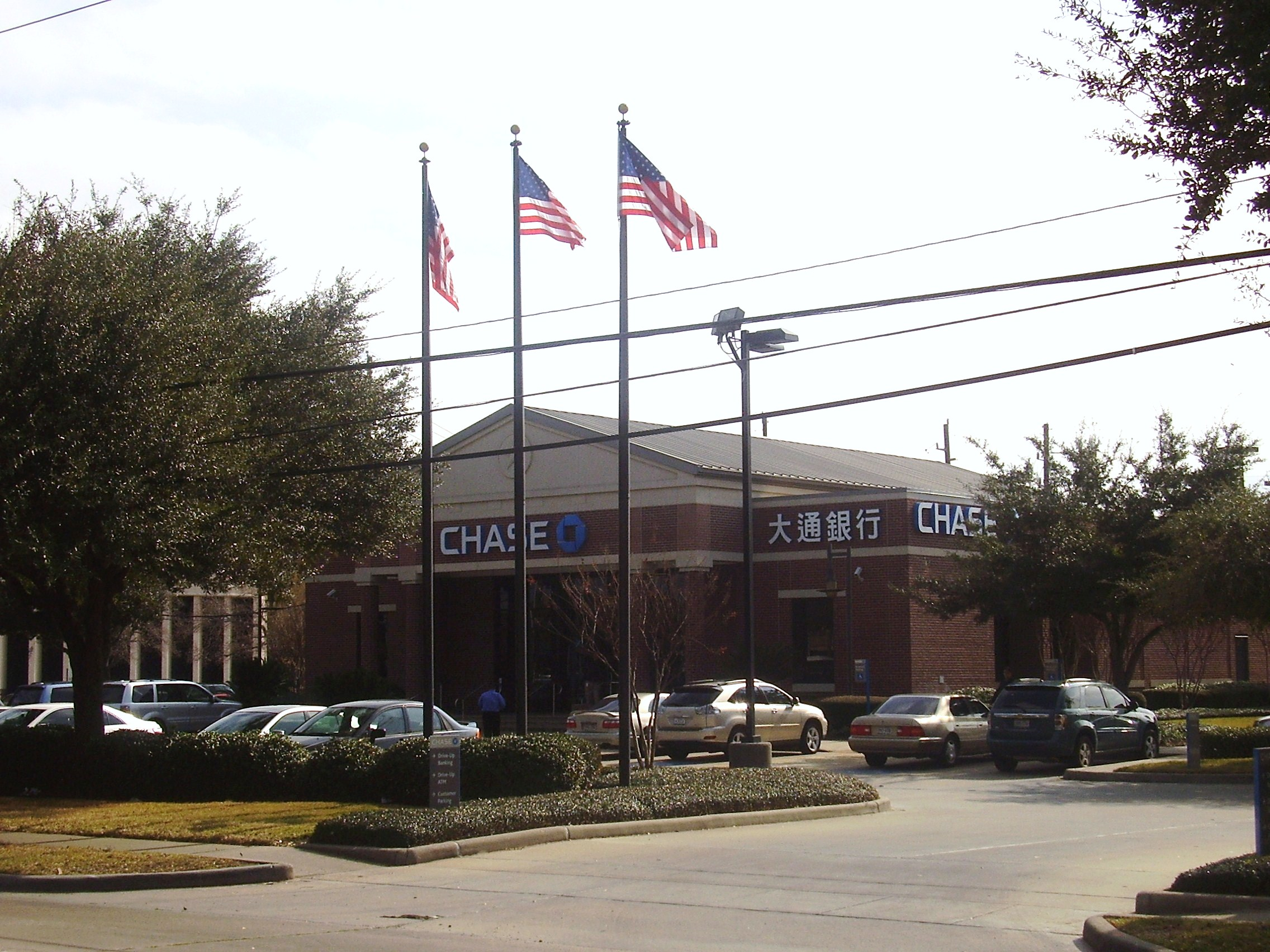 Chase Bank (Chinese: 大通銀行 Dàtōng Yínháng) Bellaire and Beltway branch - 9709 Bellaire Boulevard, Houston, TX 77036 - Houston Chinatown